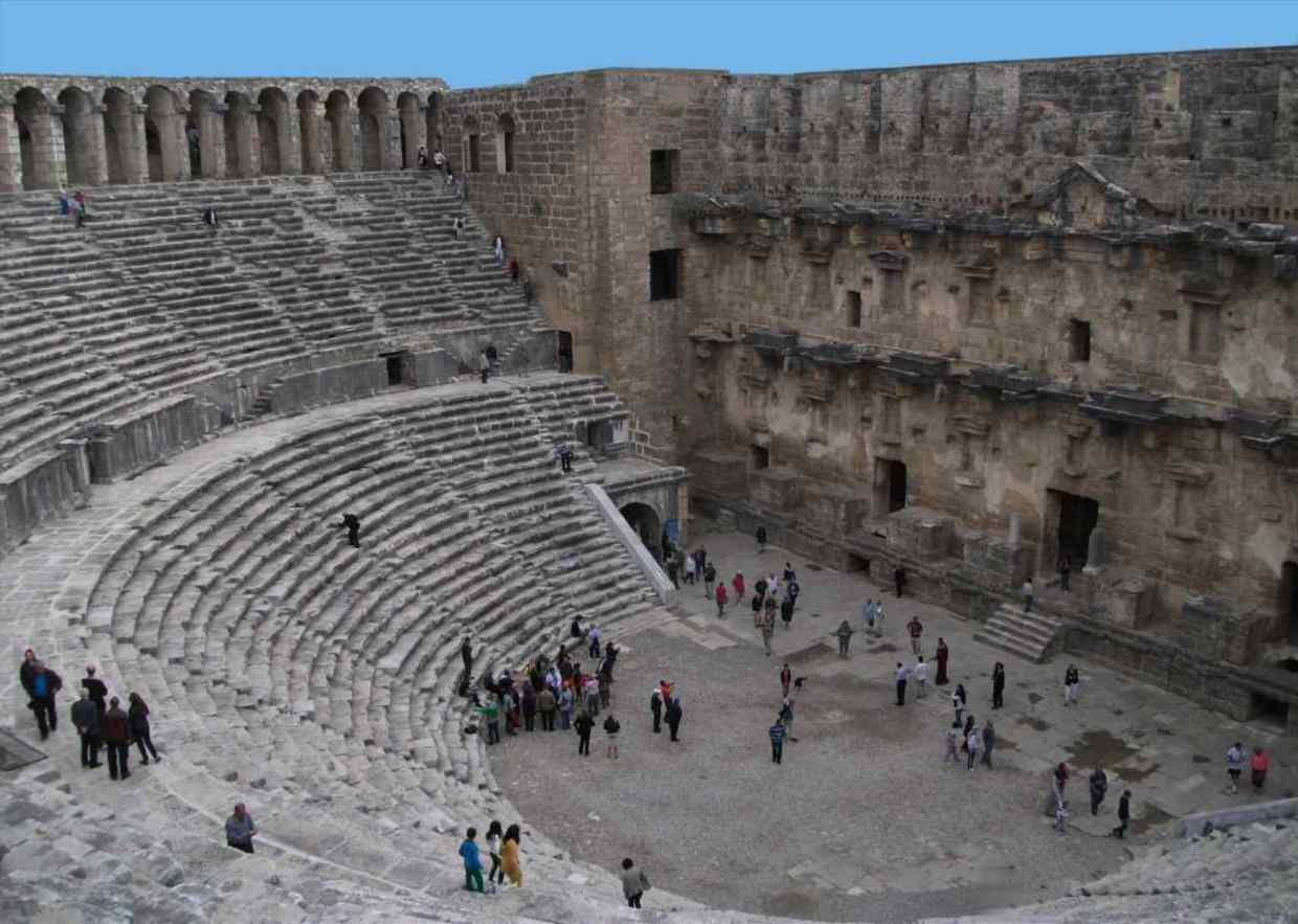 Aspendos theatre from gallery